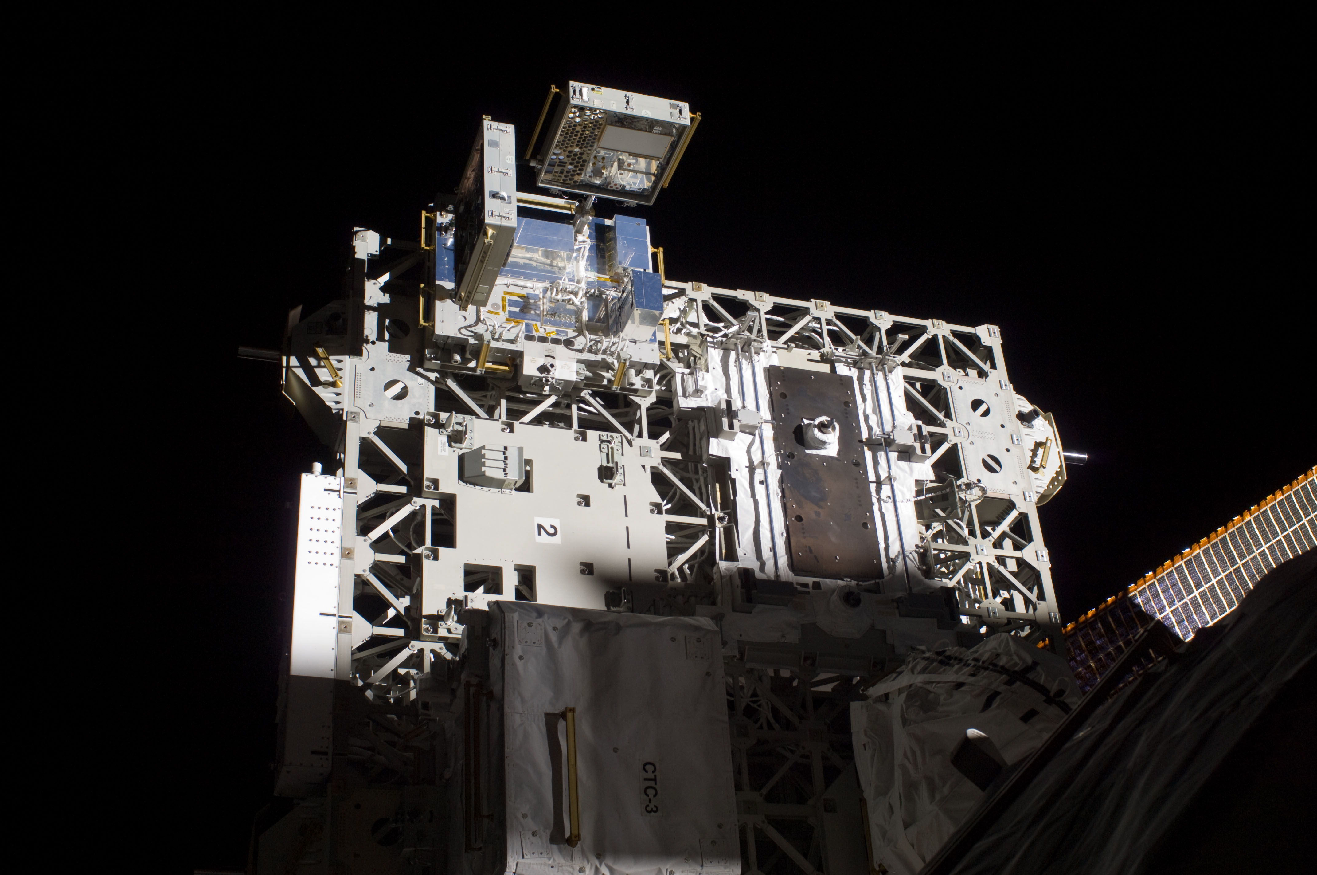 The MISSE 7 experiment on the Express Logistics Carrier 2 of the International Space Station was photographed by a space-walking STS-129 astronaut during the mission's third and final session of extravehicular activity (EVA). This is the latest in a series of experiments that expose materials and composite samples to space for several months before they are returned for experts to analyze. This MISSE experiment actually is plugged into the space station's power supply.